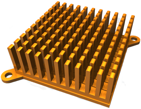 Heatsink rendered using Povray, edited with Gimp